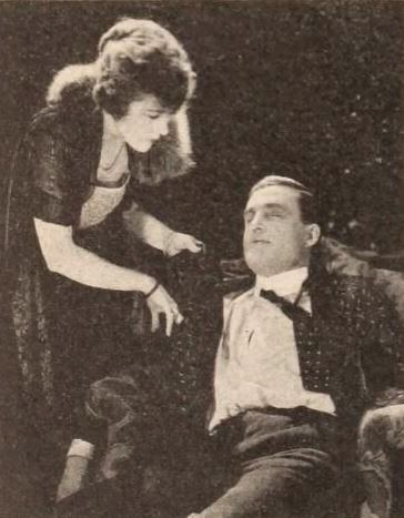 Still from the American romantic drama film The Price of Possession (1921) with Ethel Clayton and Rockliffe Fellowes, on page 64 of the March 19, 1921 Exhibitors Herald.